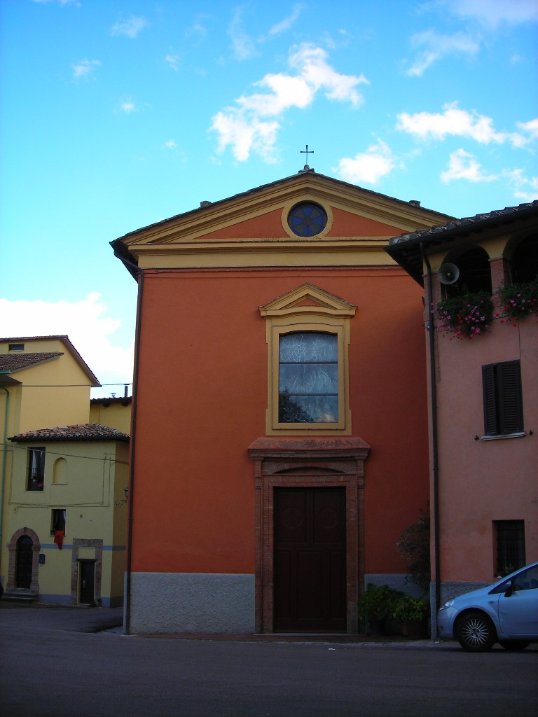 Parish church facade of Ponte Pattoli, Perugia, Ubria, Italy